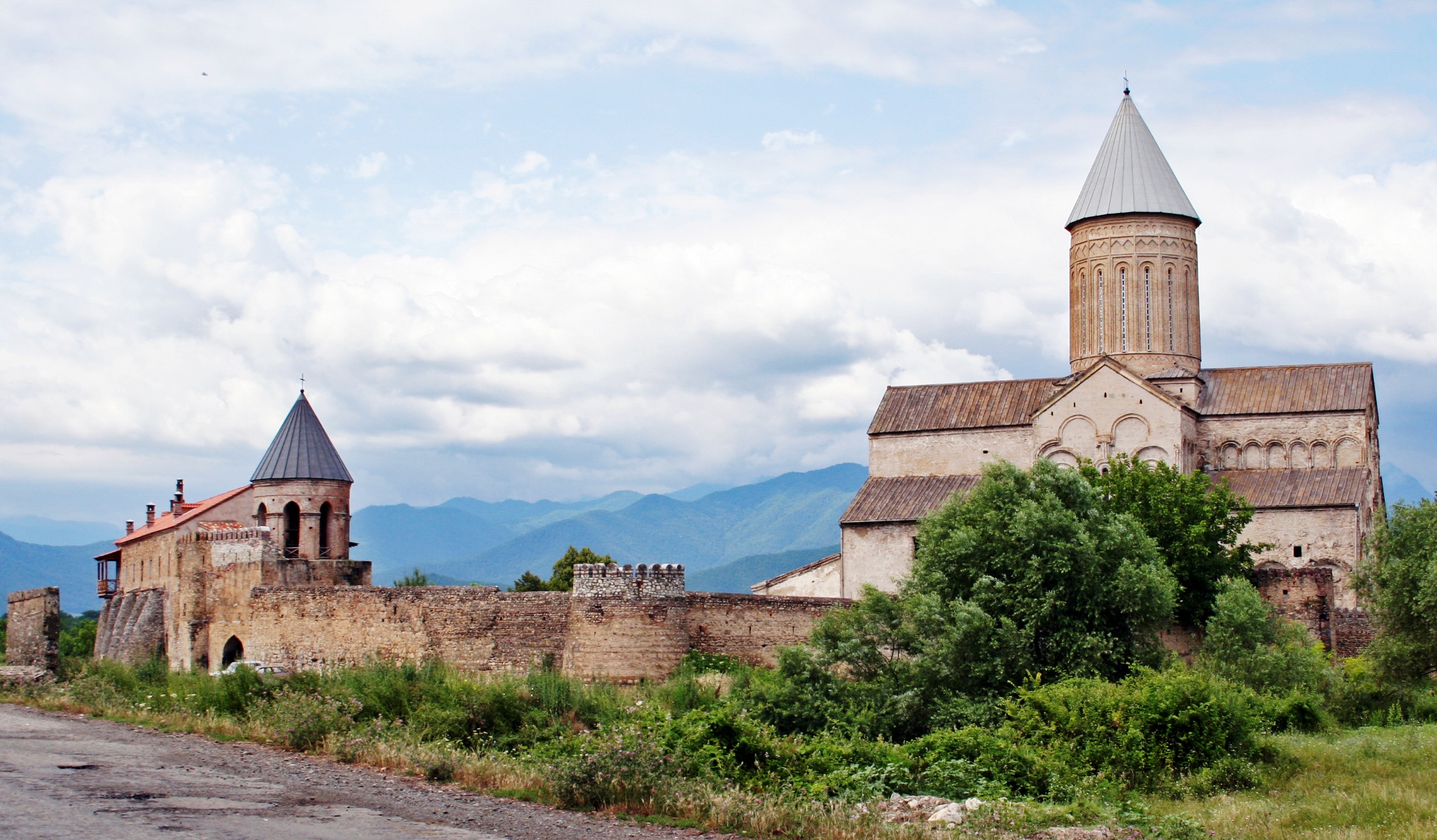 Alaverdi, St George's Cathedral.